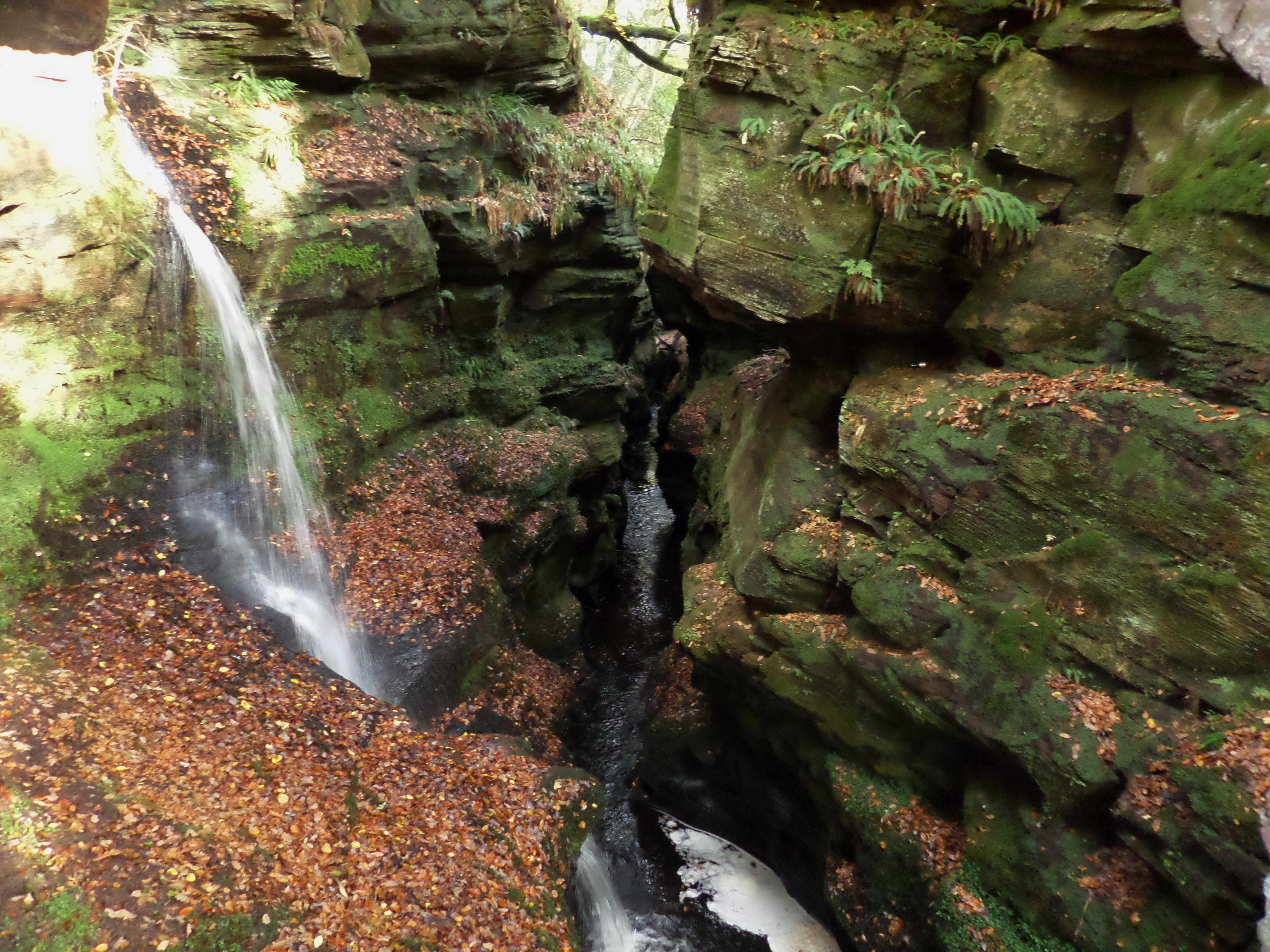 Crichope Linn red sandstone gorge and burn, Cample, Dumfries & Galloway, Scotland. See from the stoner arch. Burley's Leap is above and Devil's Cauldron below. The Crichope Burn runs through.